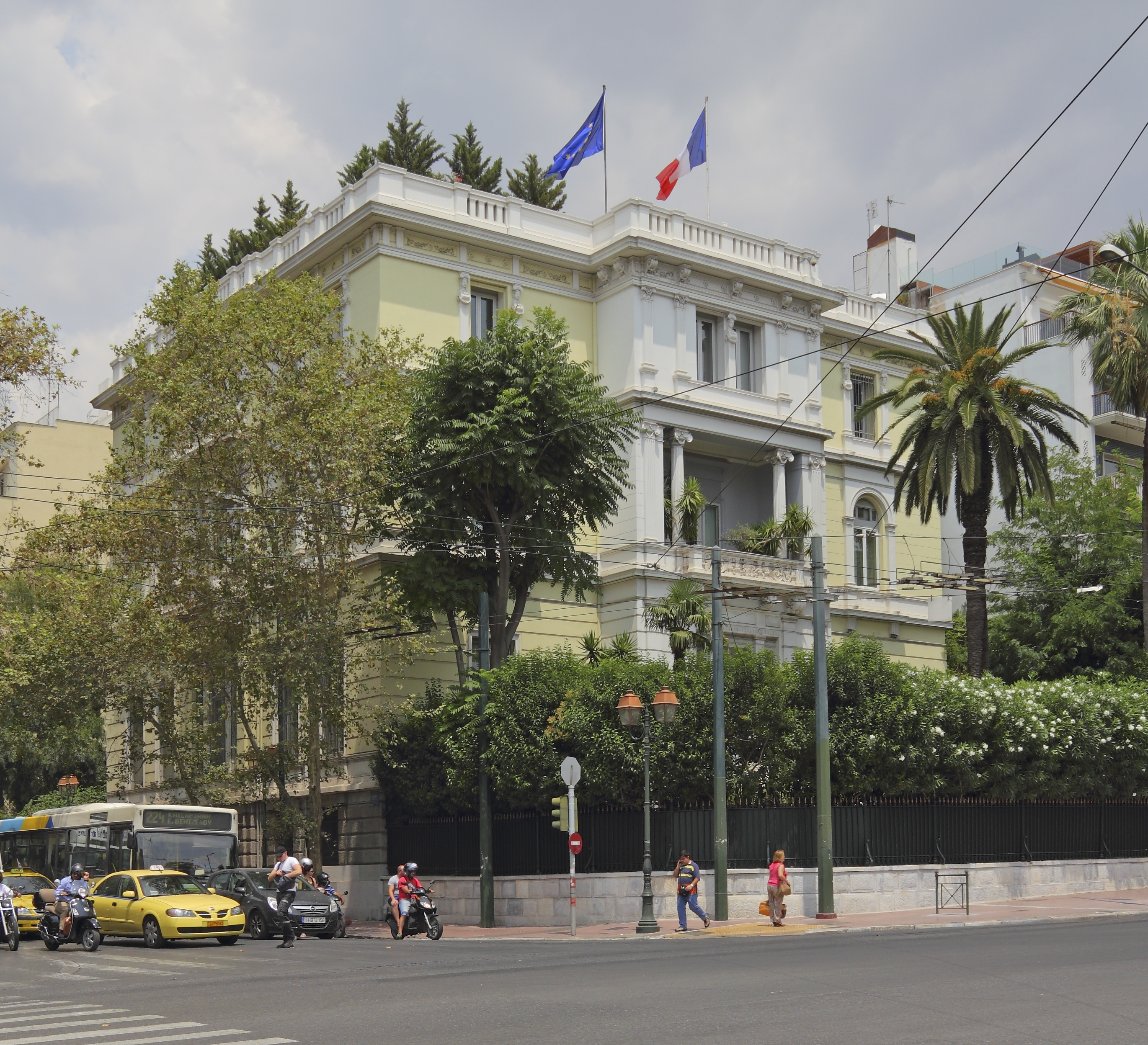 Embassy of France in Athens (Attica, Greece)